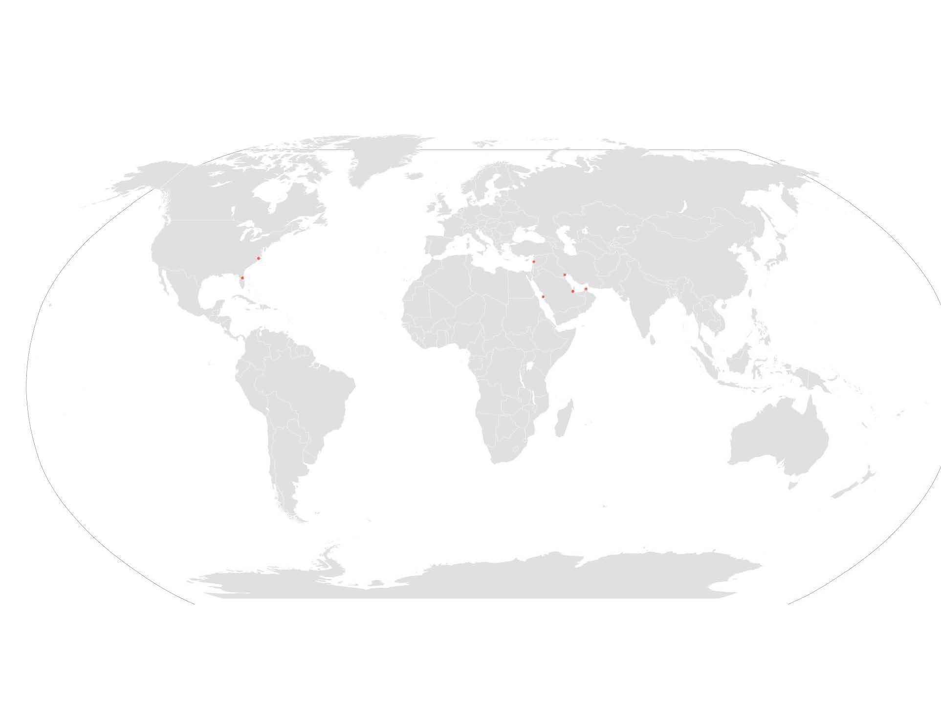 Gulftainer Operation locations